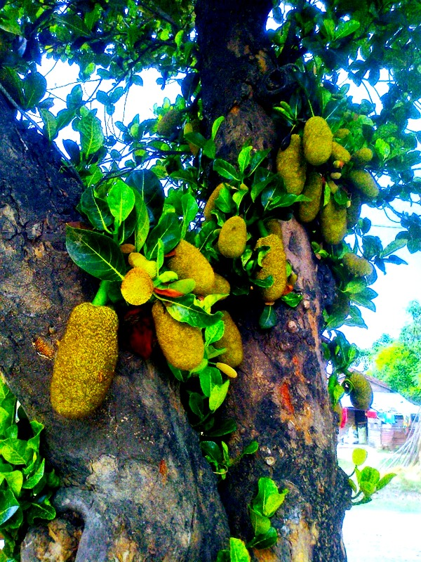 Developing jackfruit in Nepal